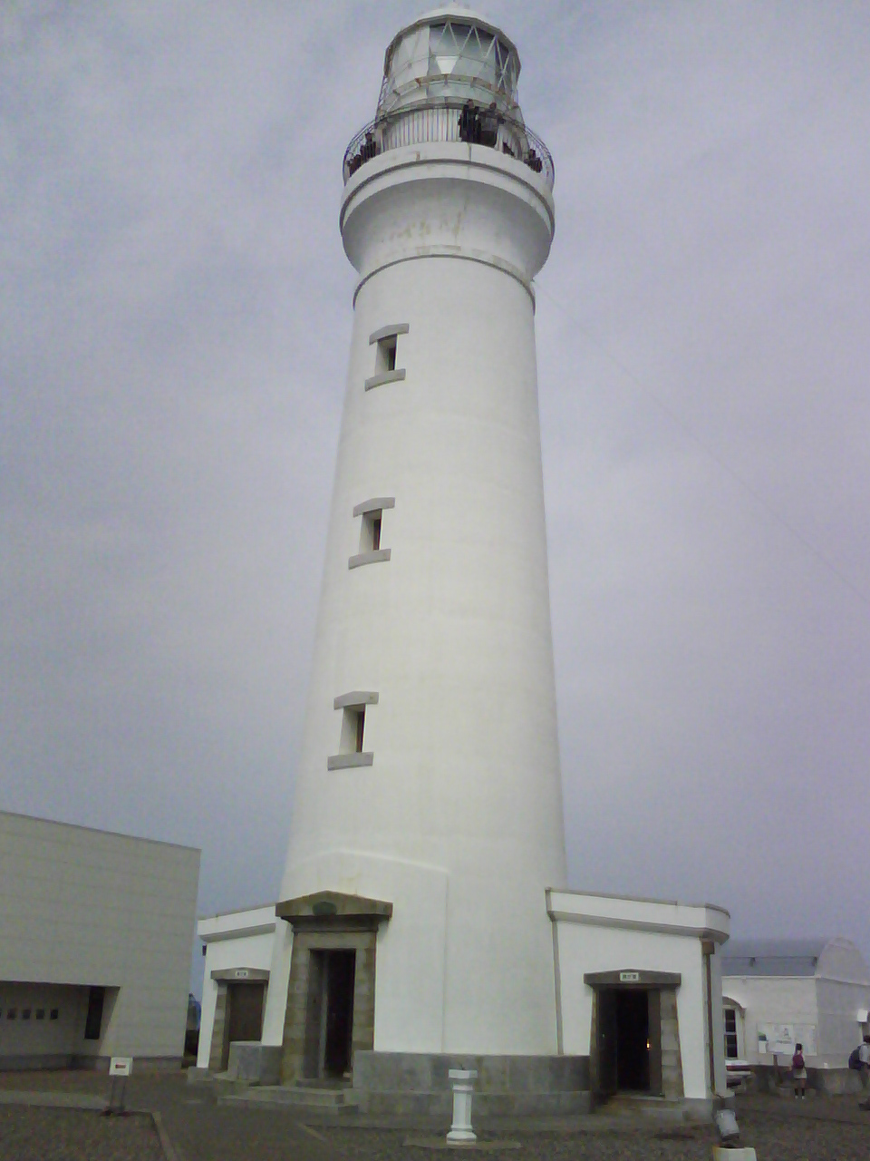 This photo presents main-building of Inubosaki Lighthouse.